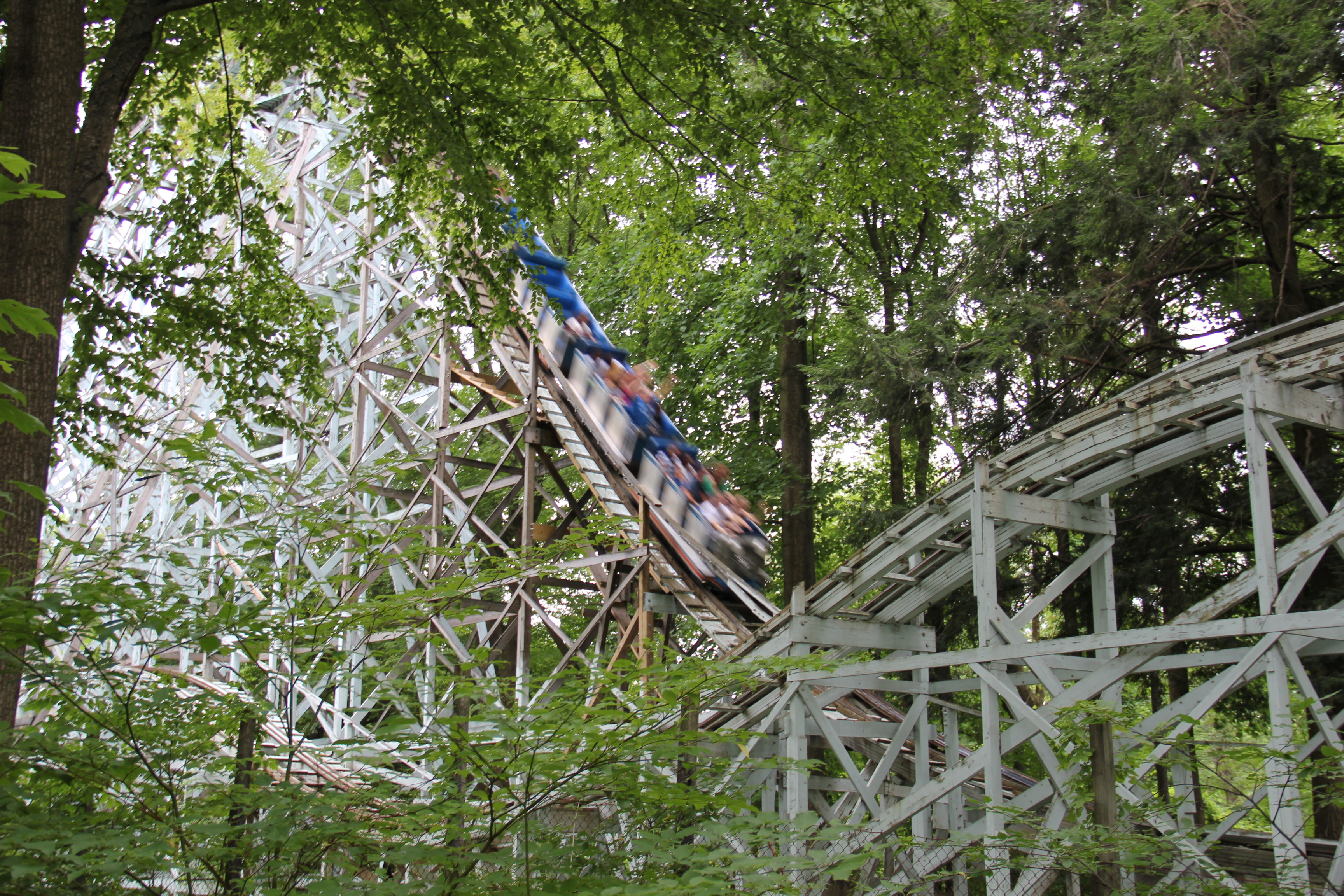 Conneaut Lake Park @ Conneaut Lake, Pennsylvania